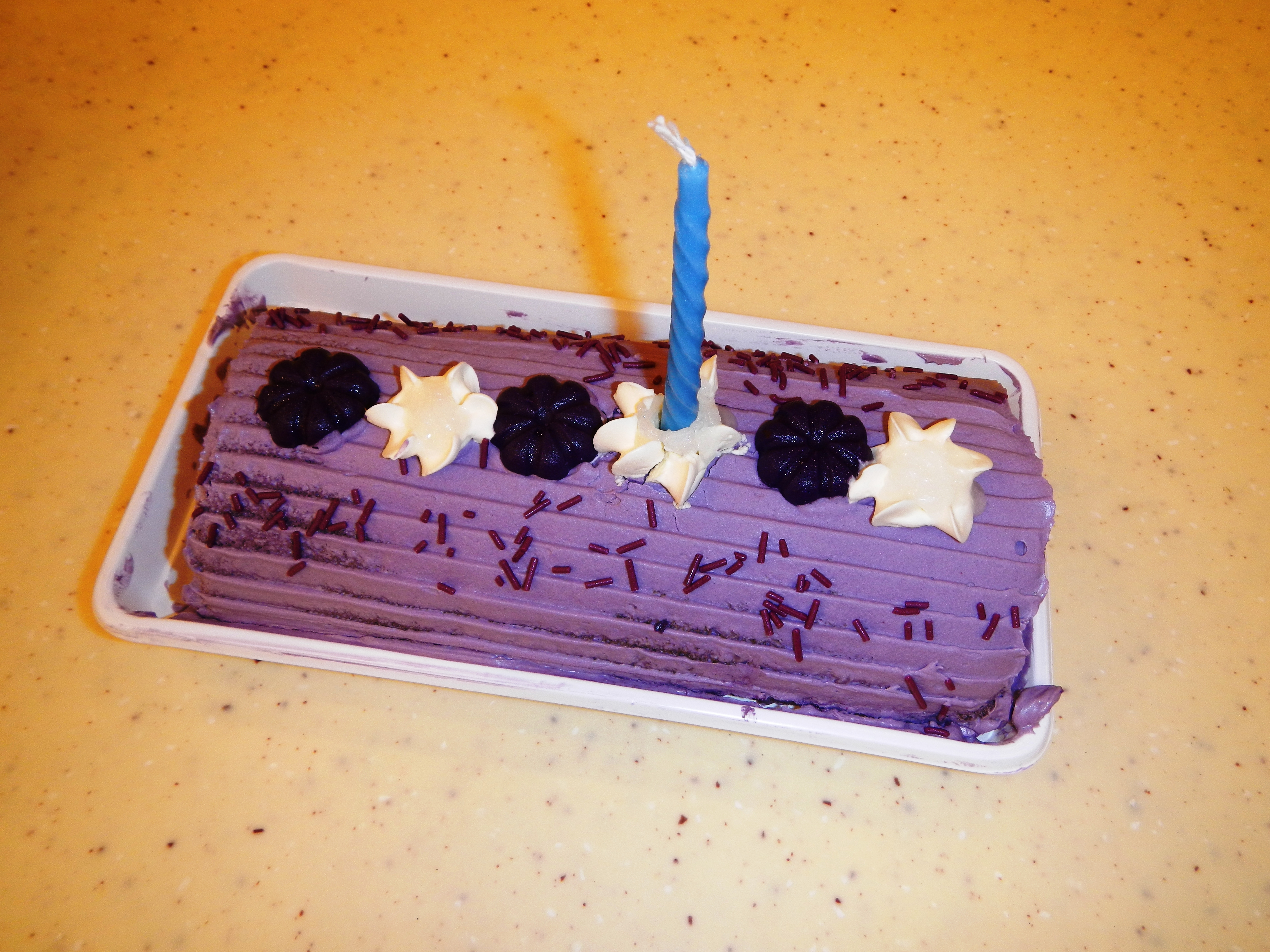 Goldilocks Bakeshop Ube macapuno cake